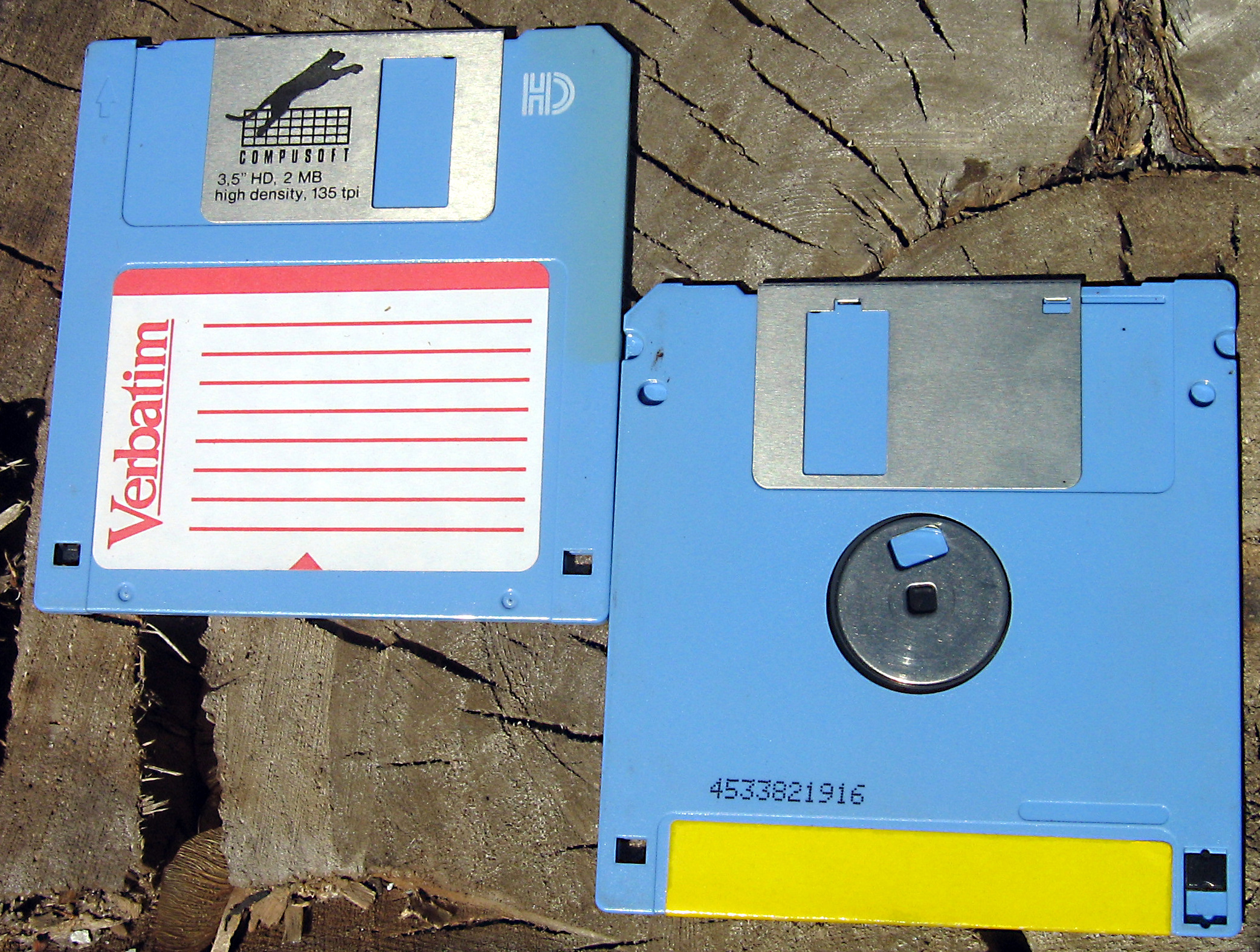 Floppy disc 3.5".